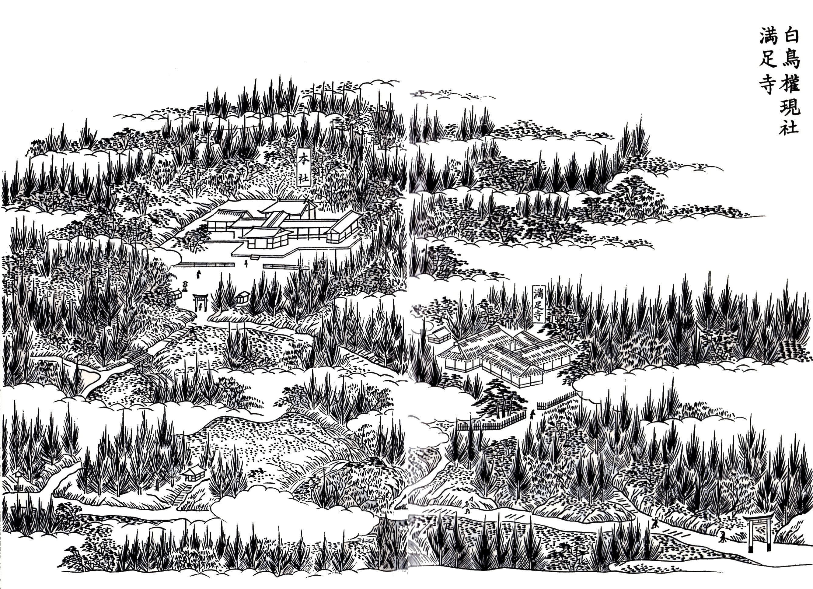 Shiratori Shrine in the 19th Century (Ebino City, Miyazaki, Japan)